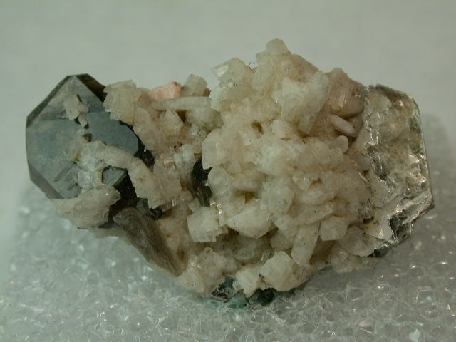 Zinnwaldite, Albite, smoky quartz Locality: Sawtooth Batholith/Sawtooth Mts, Custer County, Idaho, USA Original description: A 2.5 by 1.7 cms specimen with a greenish crystal of Zinnwaldite on the right with white Albite cystals and a smoky Quartz crystal on the left. JSS specimen and photograph.